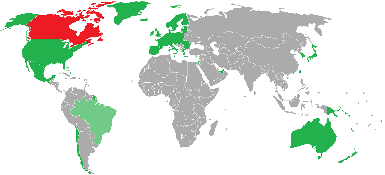 Canada Countries with visa-free access to Canada (eTA required when arriving by air, except for United States nationals) Electronic Travel Authorization required(eTA available for citizens who have held a Canadian visa in the last 10 years or who hold a valid United States non-immigrant visa when arriving by air) Visa required for entry to Canada